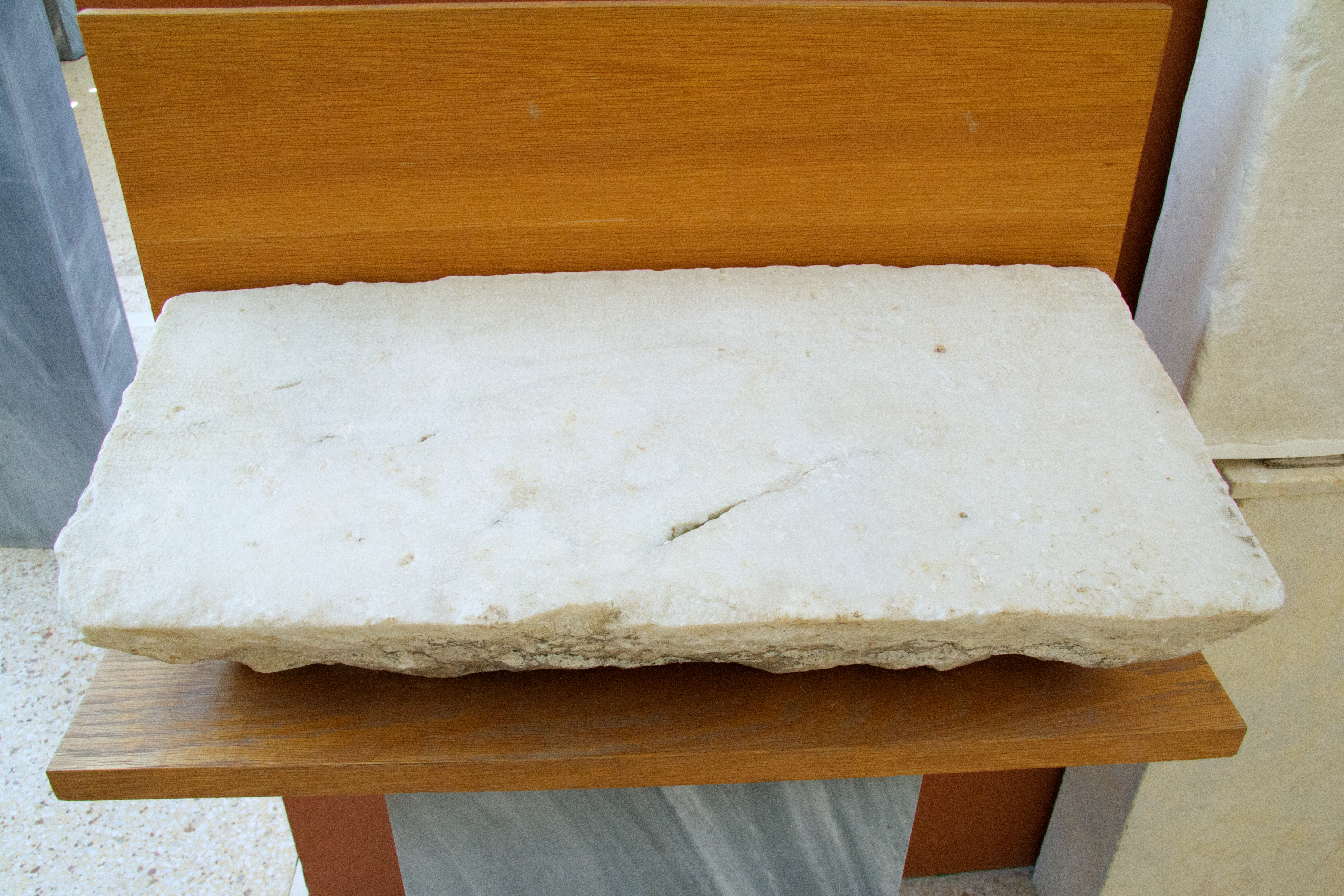 The Parian Chronicle (Marmor Parium). One of the three parts of the stele on which the Parian Chronicle was inscribed. This is the shorter fragment base of the stele, found in 1897 in the place called Tholos in Paroikia, in Varouchas´ land, and was entrusted by Andreas Varouchas to the Museum. There is a possibility that the stele had been standing in Archilocheion so that it was accessible and visible by all. It contains chronicle entries for the years 356–299 BC. It is dated in 3rd century BC and was carved by a Parian sculptor. Archaeological Museum of Paros, A 26.